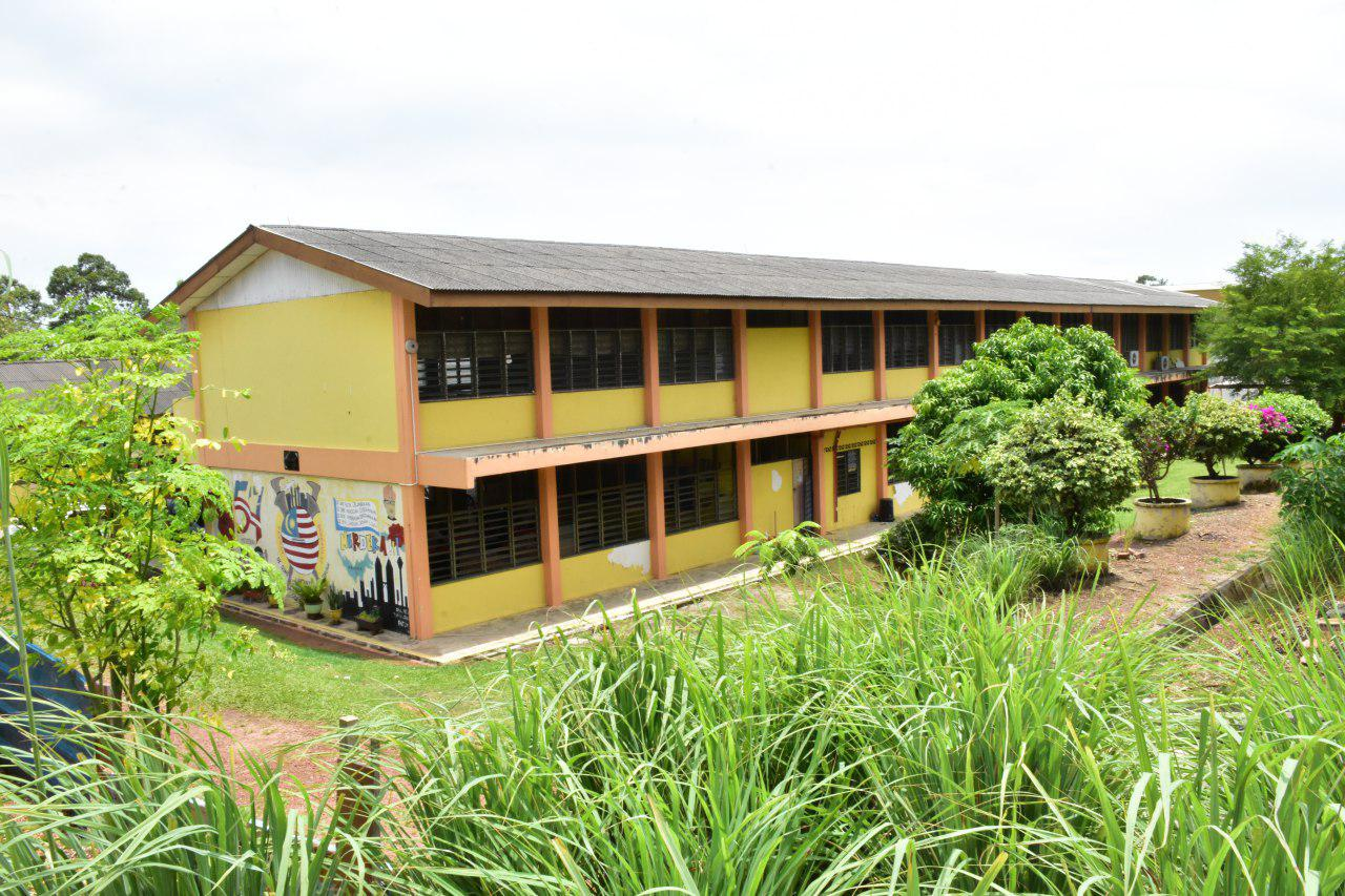 Pemandangan dari Atas